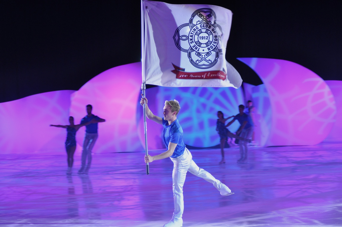 Ross Miner carrying the Skating Club of Boston flag in the club's 2012 "Ice Chips" show.